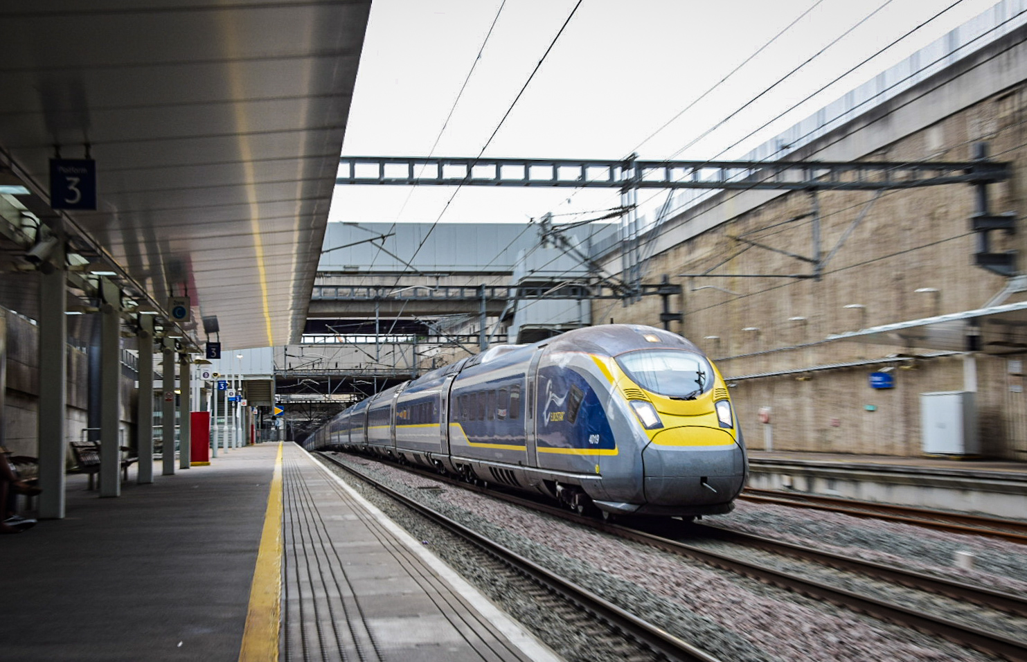 The British Rail Class 374 EMU's are part of the family of Siemens Velaro units. They operate on Eurostar services between London St. Pancras International, Bruxelles Midi, Amsterdam Centraal, Paris Gare du Nord, Gare du Marseille St. Charles, and a "Ski" service in the winter to Bourg-Saint-Maurice.